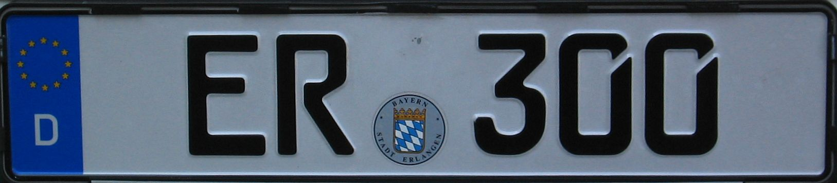 German number plate for official cars, Code 3xx, registration office ErlangenFor more license plates depicting a 0 (zero) with a diagonal gap see Category:Number 000 on vehicle registration plates